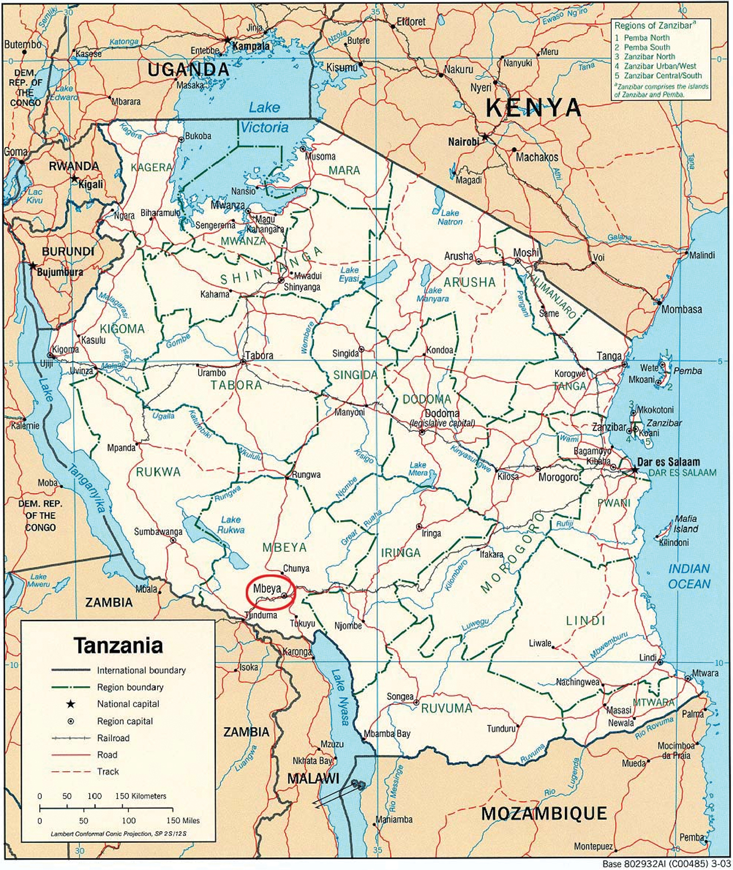 Solanum umalilaense distribution. Map courtesy of the University of Texas Libraries, The University of Texas at Austin.